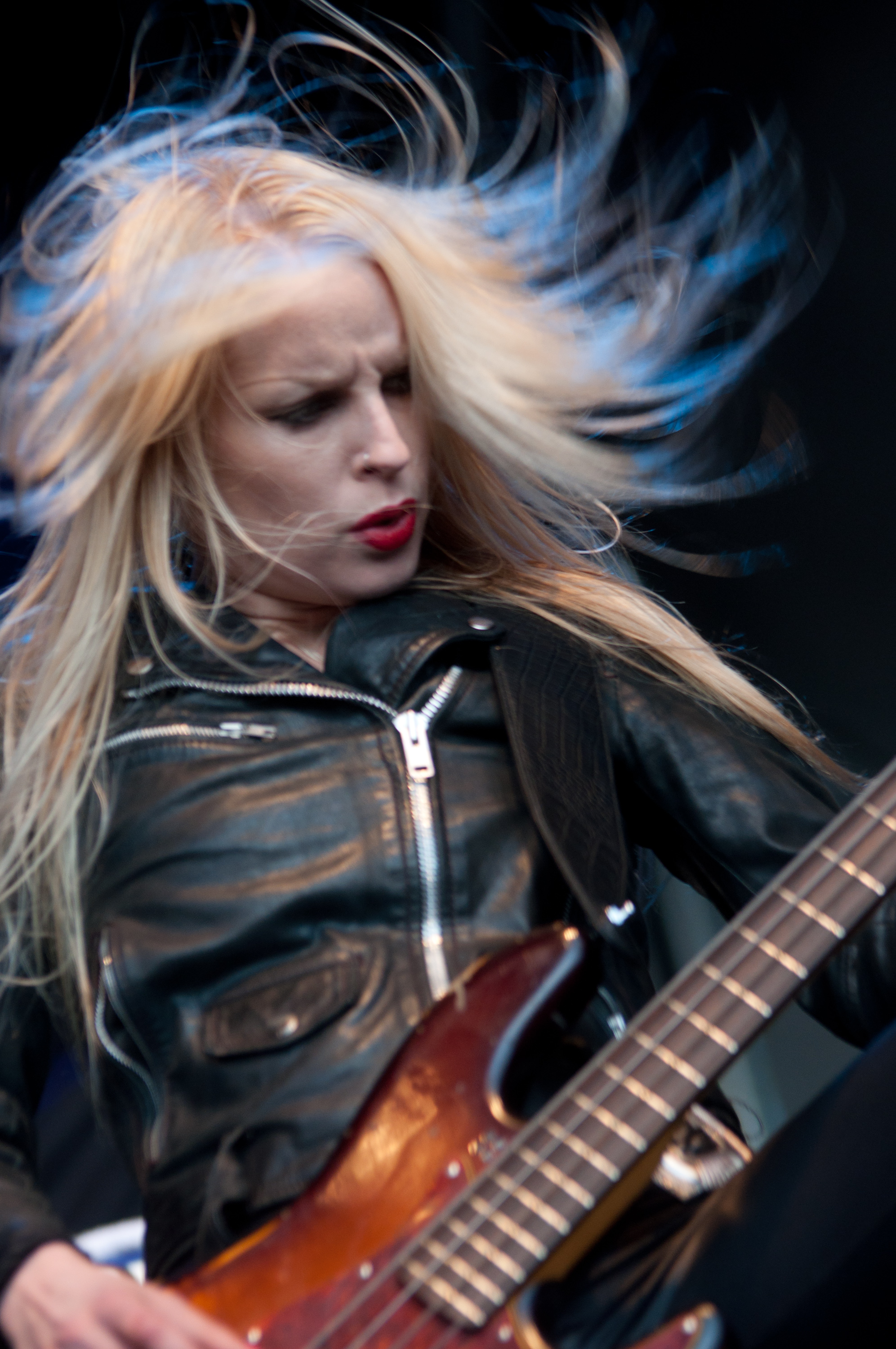 Swedish band Crucified Barbara